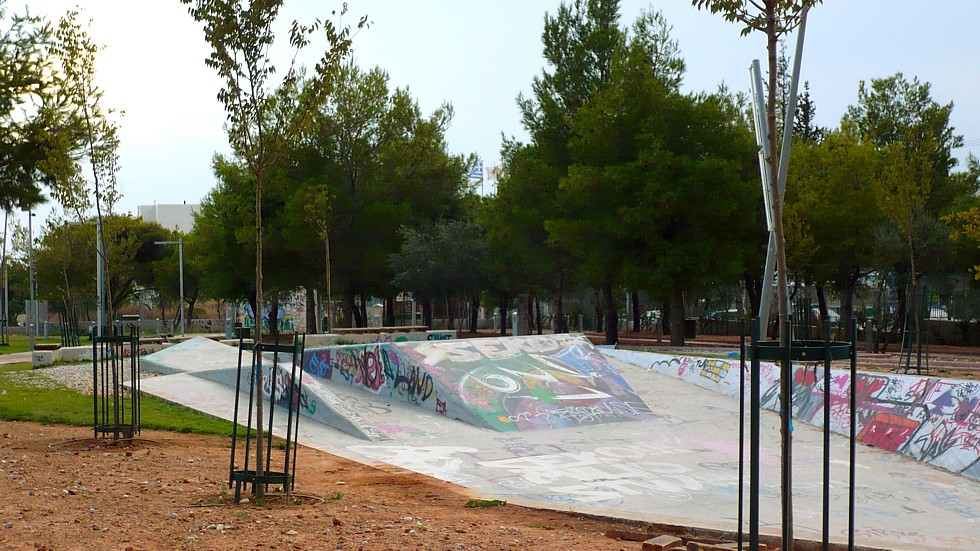 The picture depicts the Vrilissia skate park.